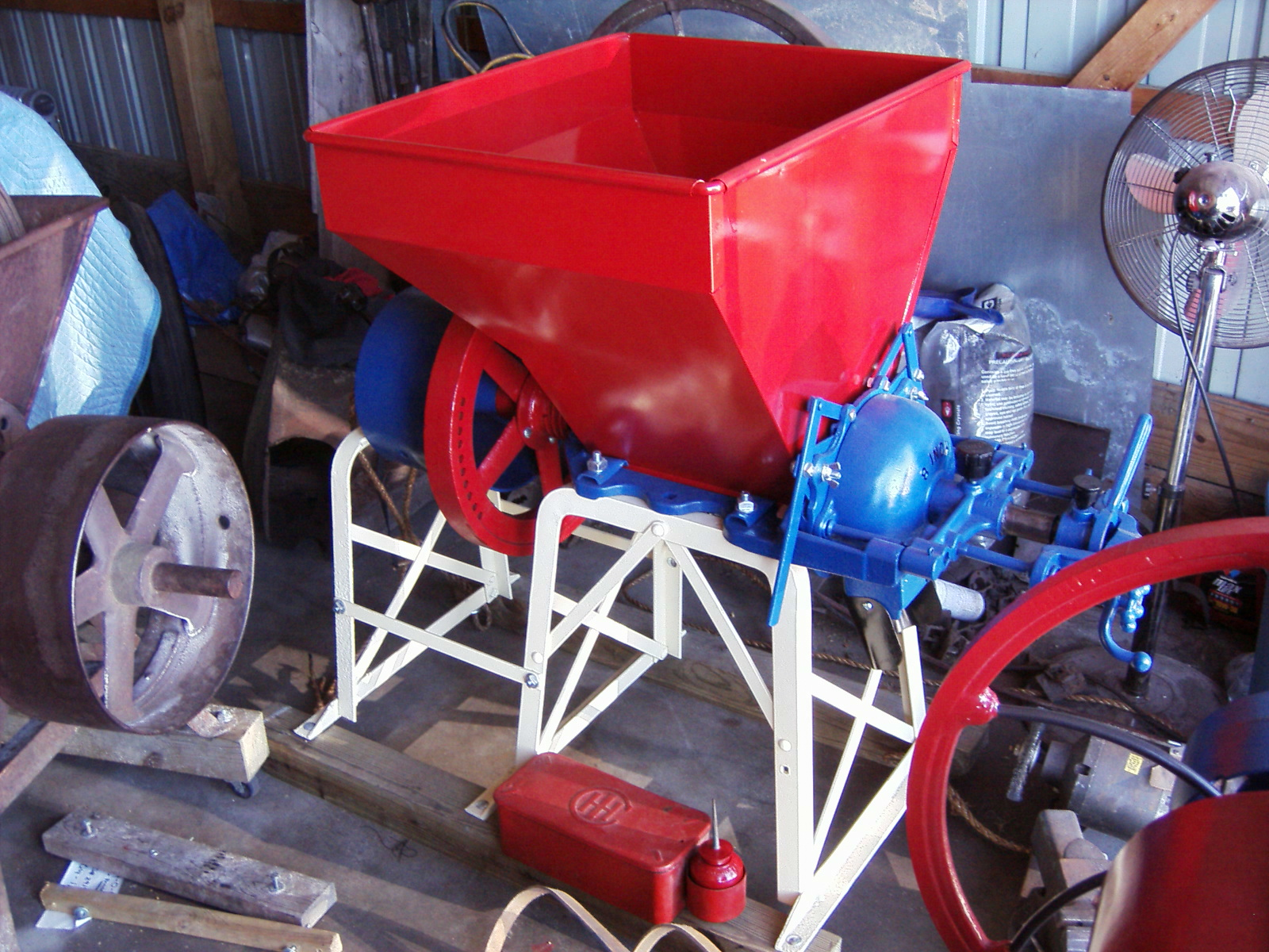 International Harvester (IHC) feed grinder